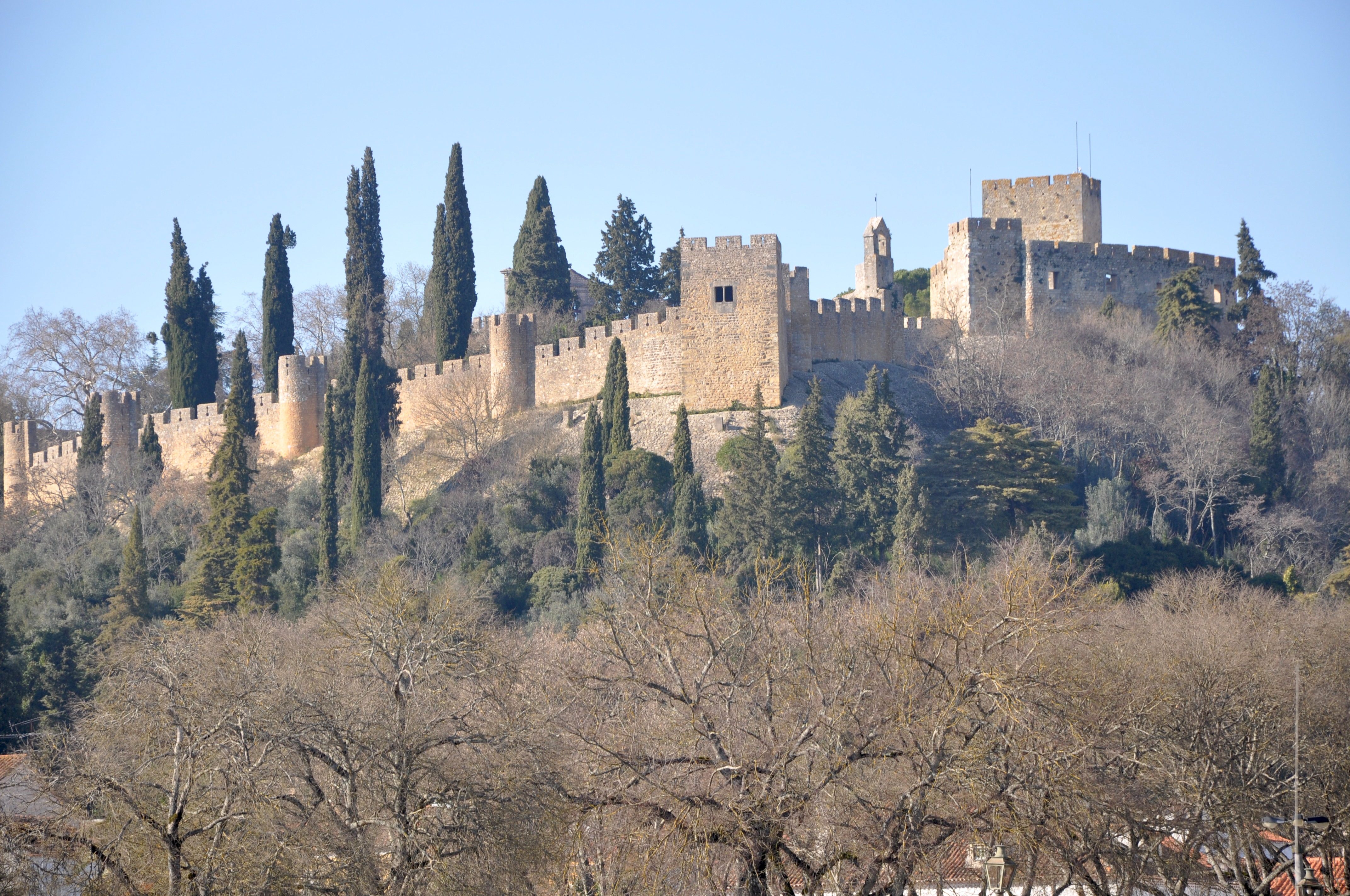 Castelo dos Templários (Tomar)